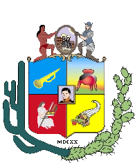 Coat of arms of Jimenez municipality. Lara state. Venezuela